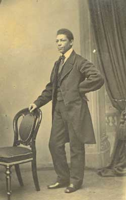 John Sella Martin Abolitionist preacher and former slave